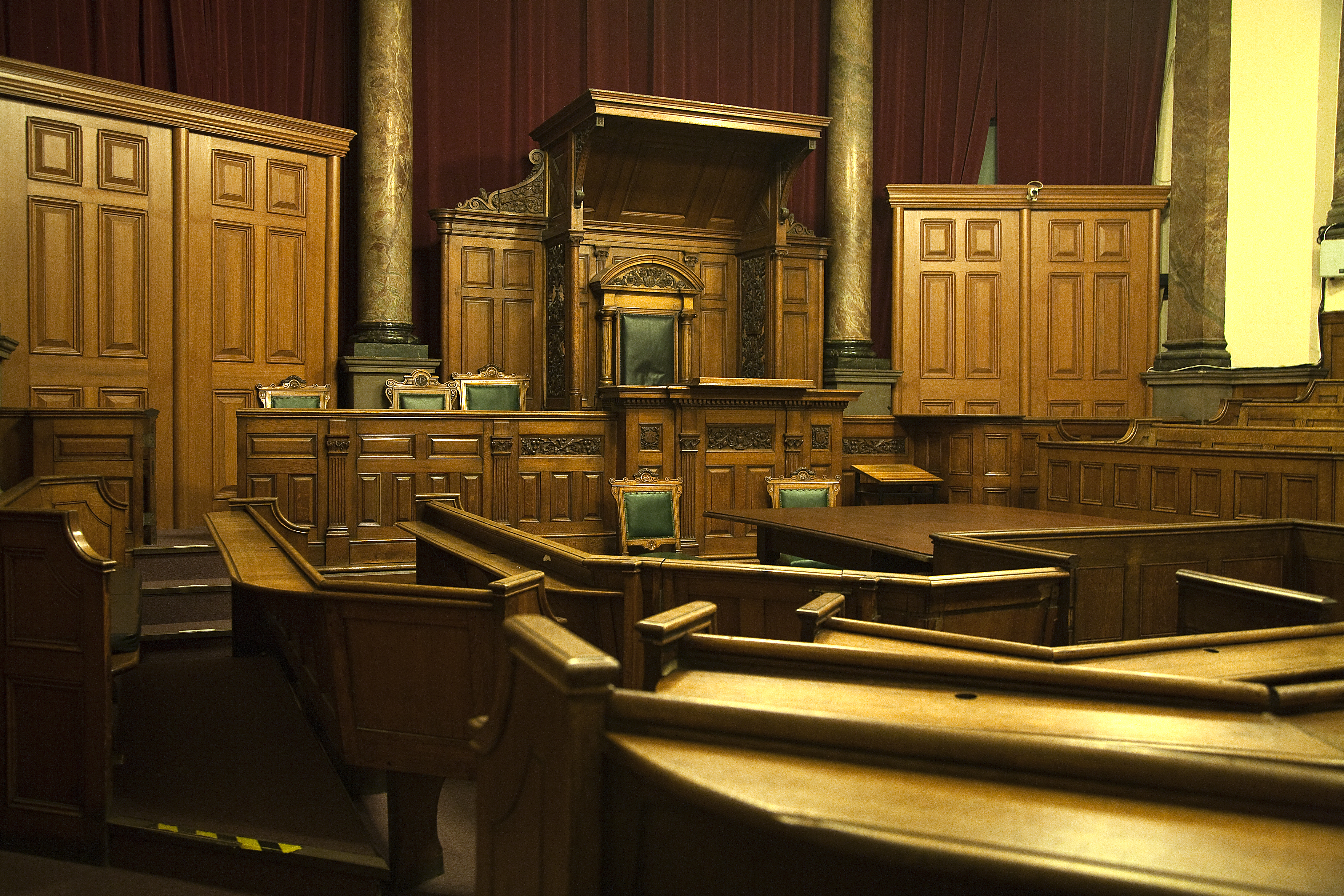 The Victorian Civil Courtroom at the National Justice Museum